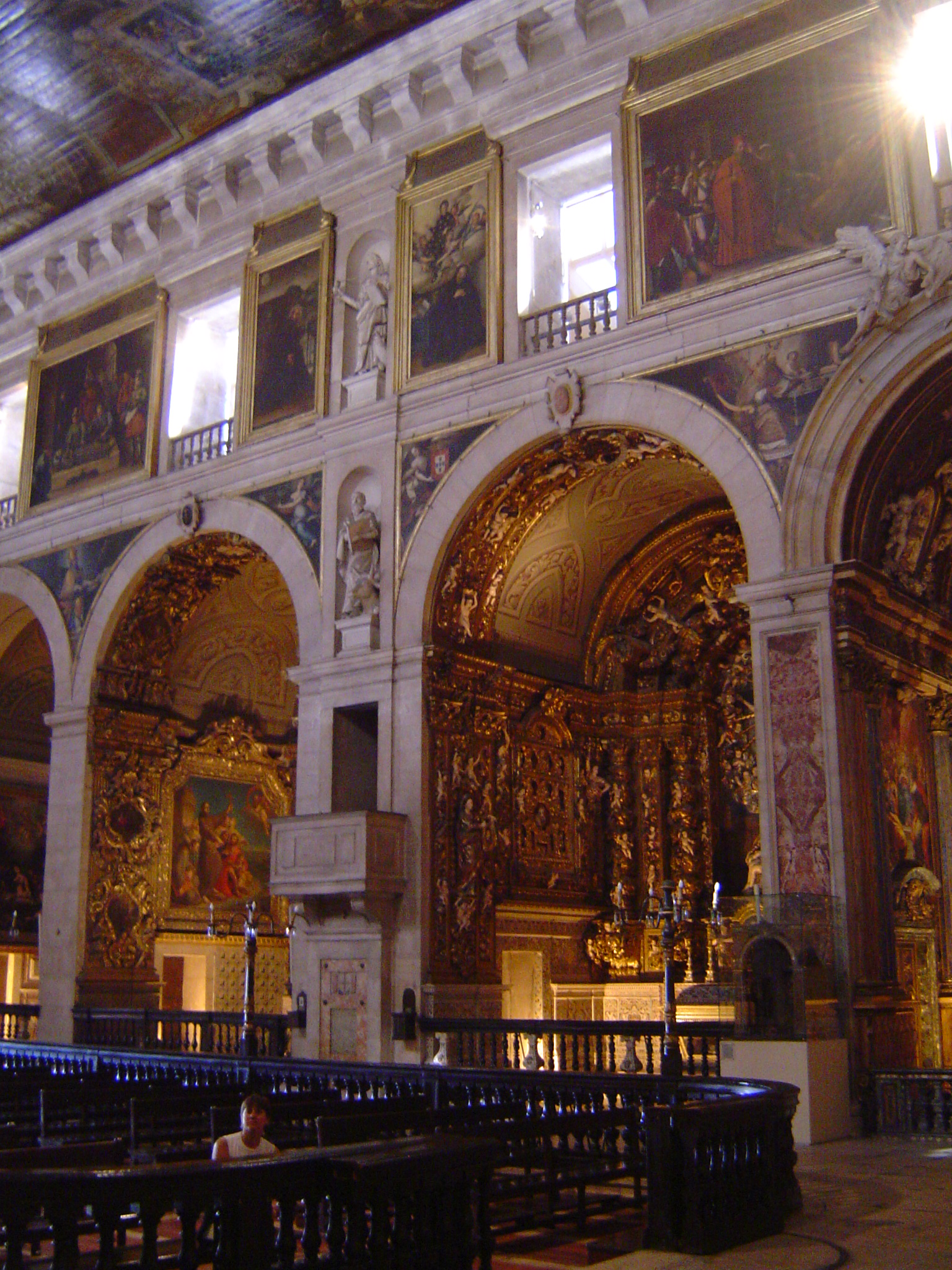 Interior of Sao Roque Church, Lisbon